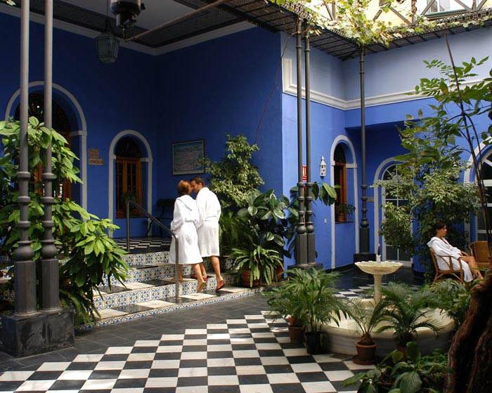 Spa of Alange central square